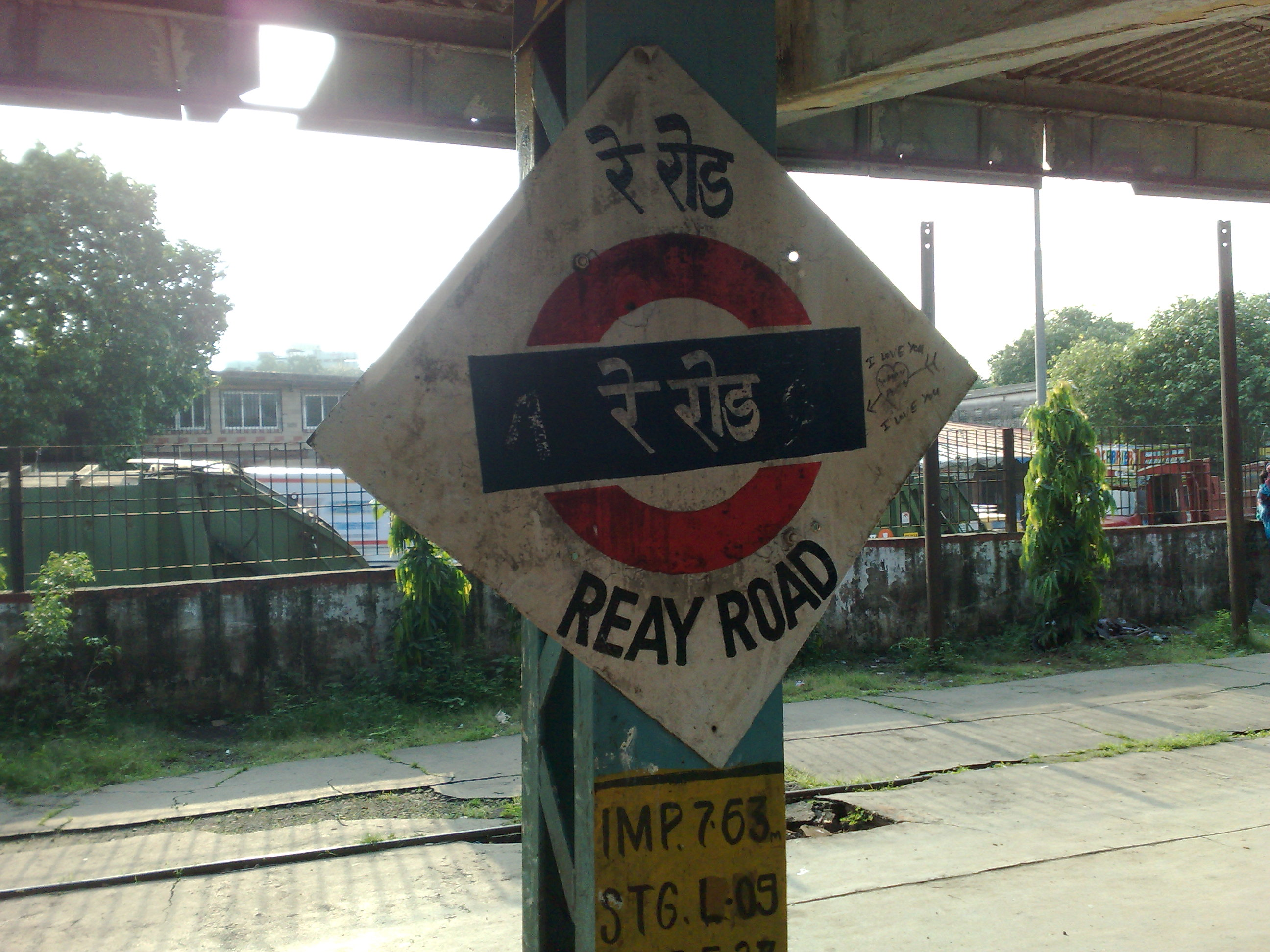 Reay Road - platformboard